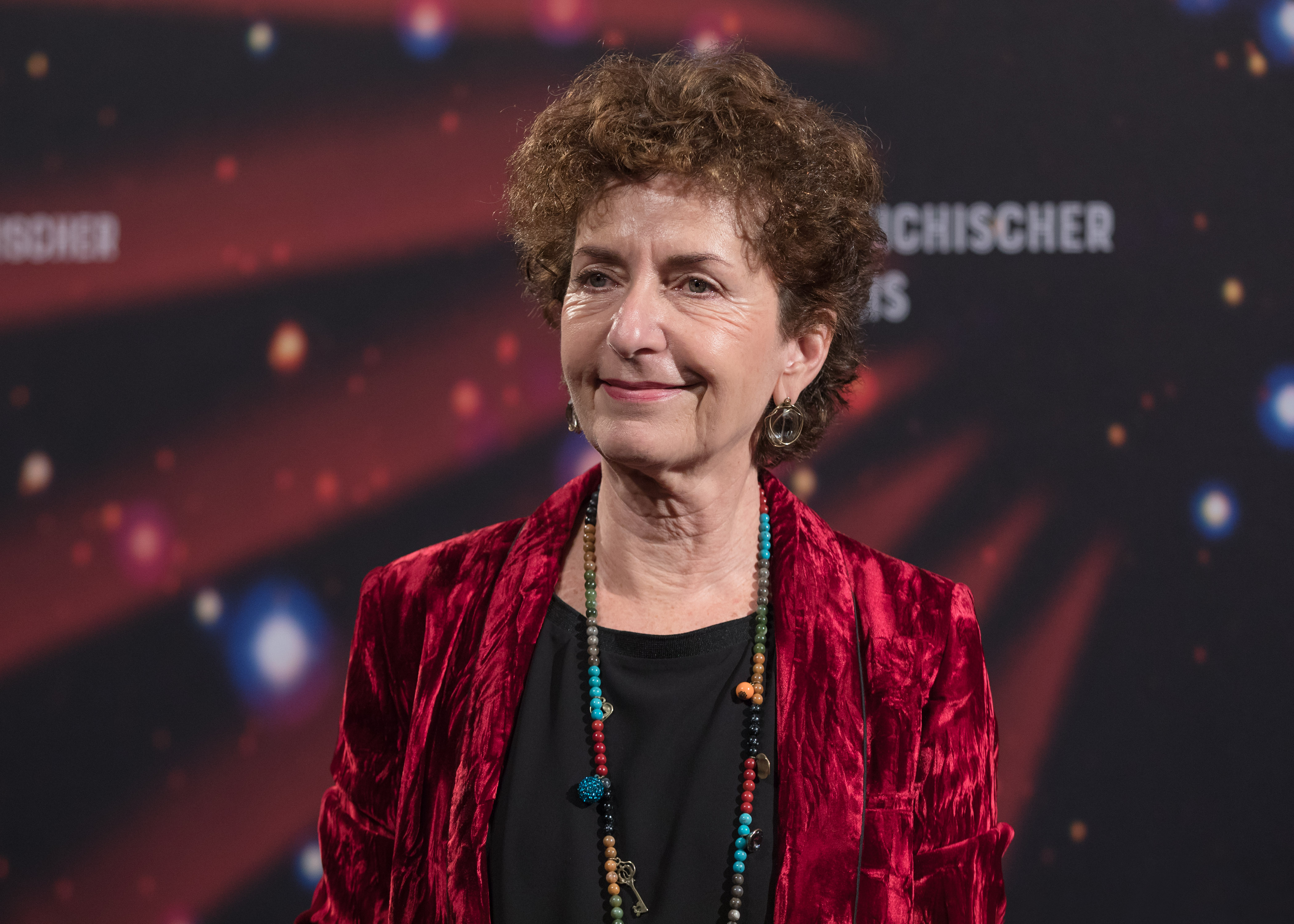 Ruth Beckermann, producer and director of Die Geträumten, at the Austrian Film Awards 2018 (Auditorium Grafenegg at Grafenegg Castle, Lower Austria,Austria).